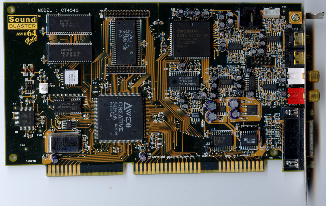 Creative Labs Sound Blaster AWE64 Gold. CT4540. Scan of card.